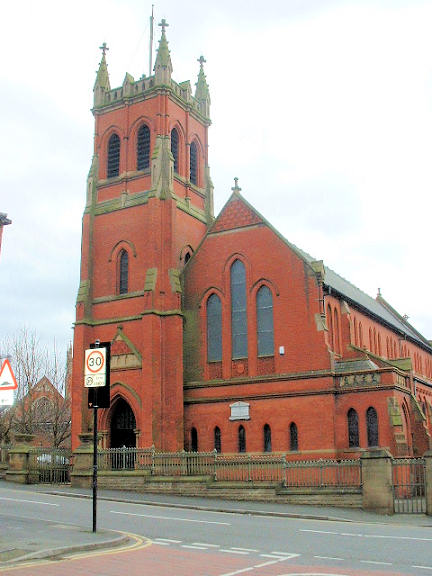 Ukrainian Catholic Church of SS Mary and James, Chadderton Way, Northmoor, Oldham, Greater Manchester, seen from the north. Completed in 1891 as the parish church of All Saints.